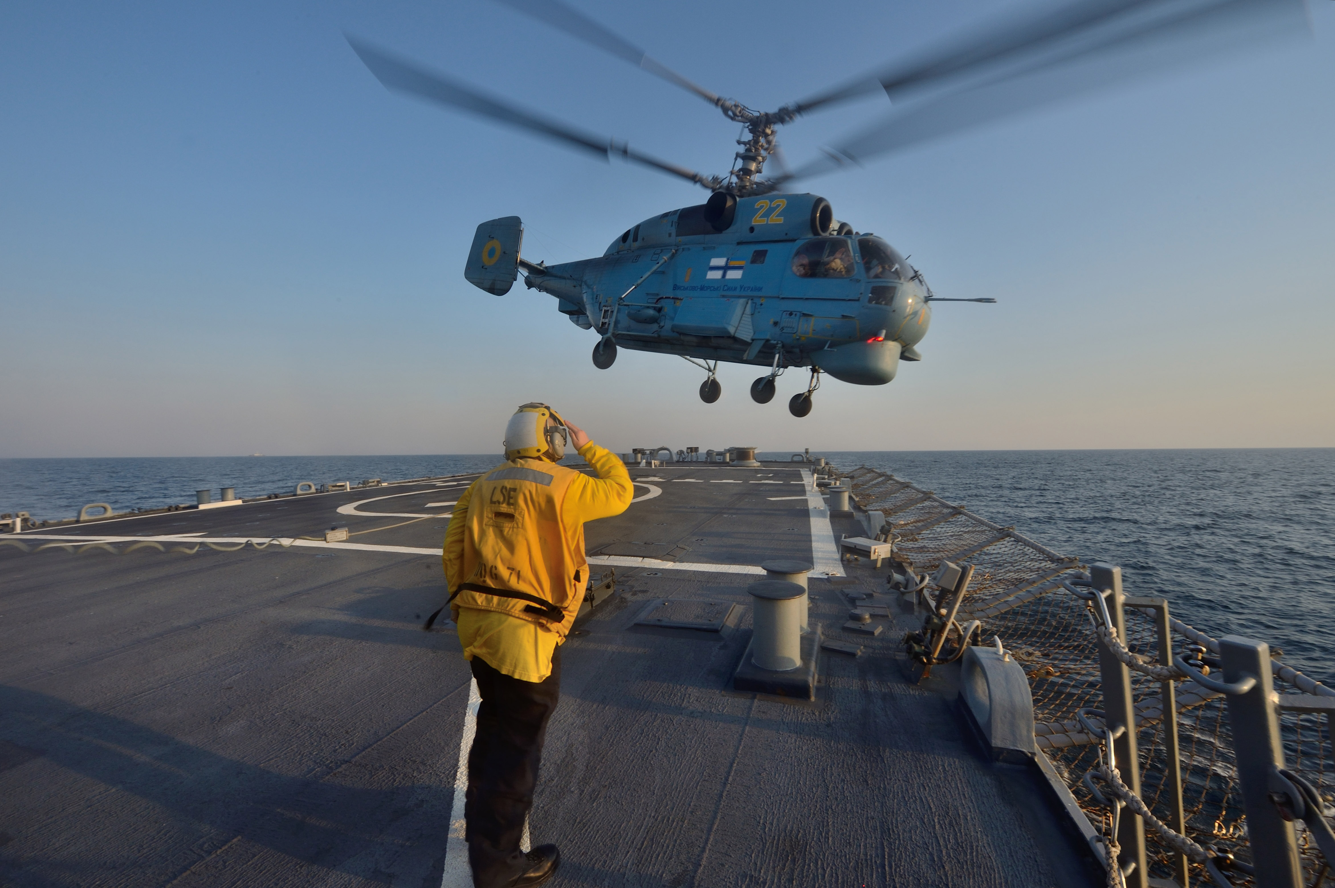 Boatswain's Mate 3rd Class Jennifer Sahley salutes as a Ukrainian navy Ka-27 Helix helicopter flies away from the Arleigh Burke-class guided-missile destroyer USS Ross (DDG 71) during exercise Sea Breeze 2014. Ross, forward deployed to Rota, Spain, is conducting naval operations in the U.S. 6th Fleet area of operations in support of U.S. national security interests in Europe. (U.S. Navy photo by Mass Communication Specialist 2nd Class John Herman/Released)